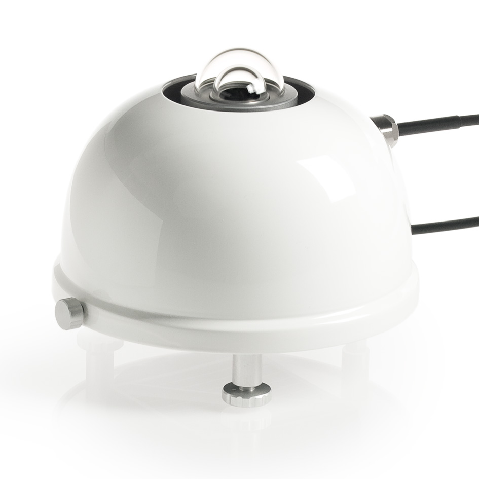 Pyranometer ventilation unit (Hukseflux VU01)